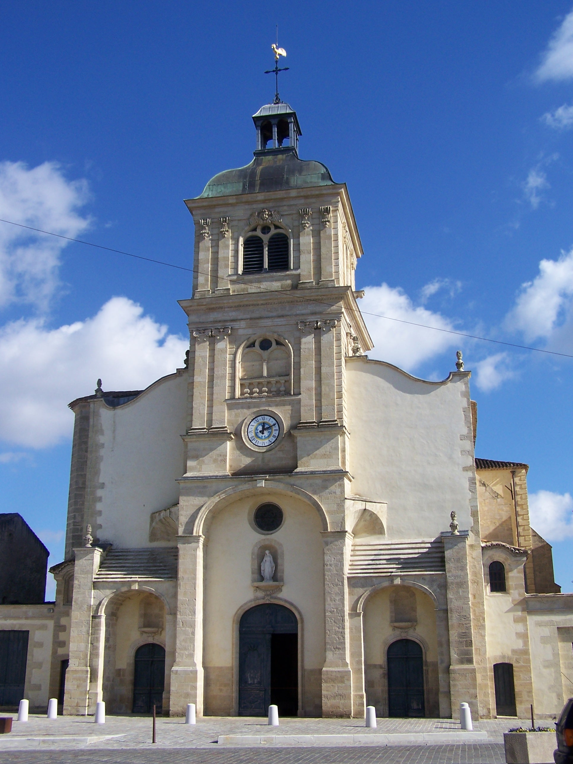 Church of Barsac (Gironde, France)